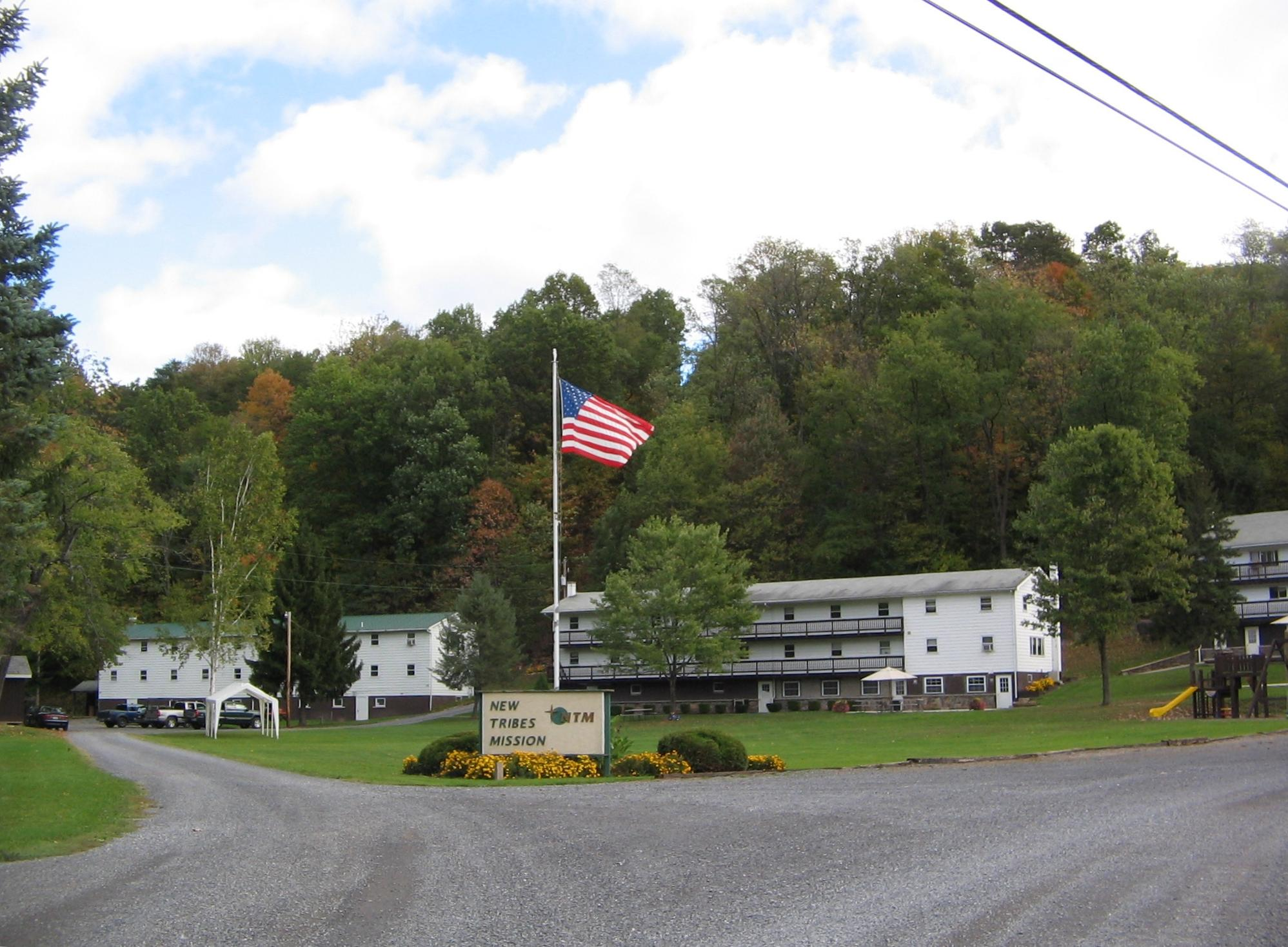 New Tribes Mission Camp along Larrys Creek and Pennsylvania Route 287, Piatt Township, Lycoming County, Pennsylvania, United States